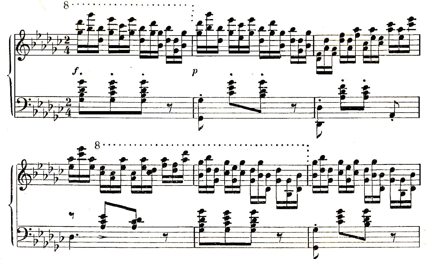 Chopin Etude Op. 10, No. 5: arrangement in double notes by Gottfried Galston, 1910 (opening)